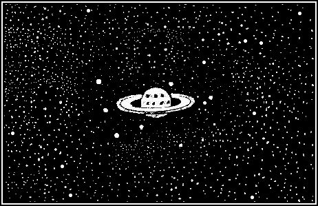 Saturn_and_his_moons